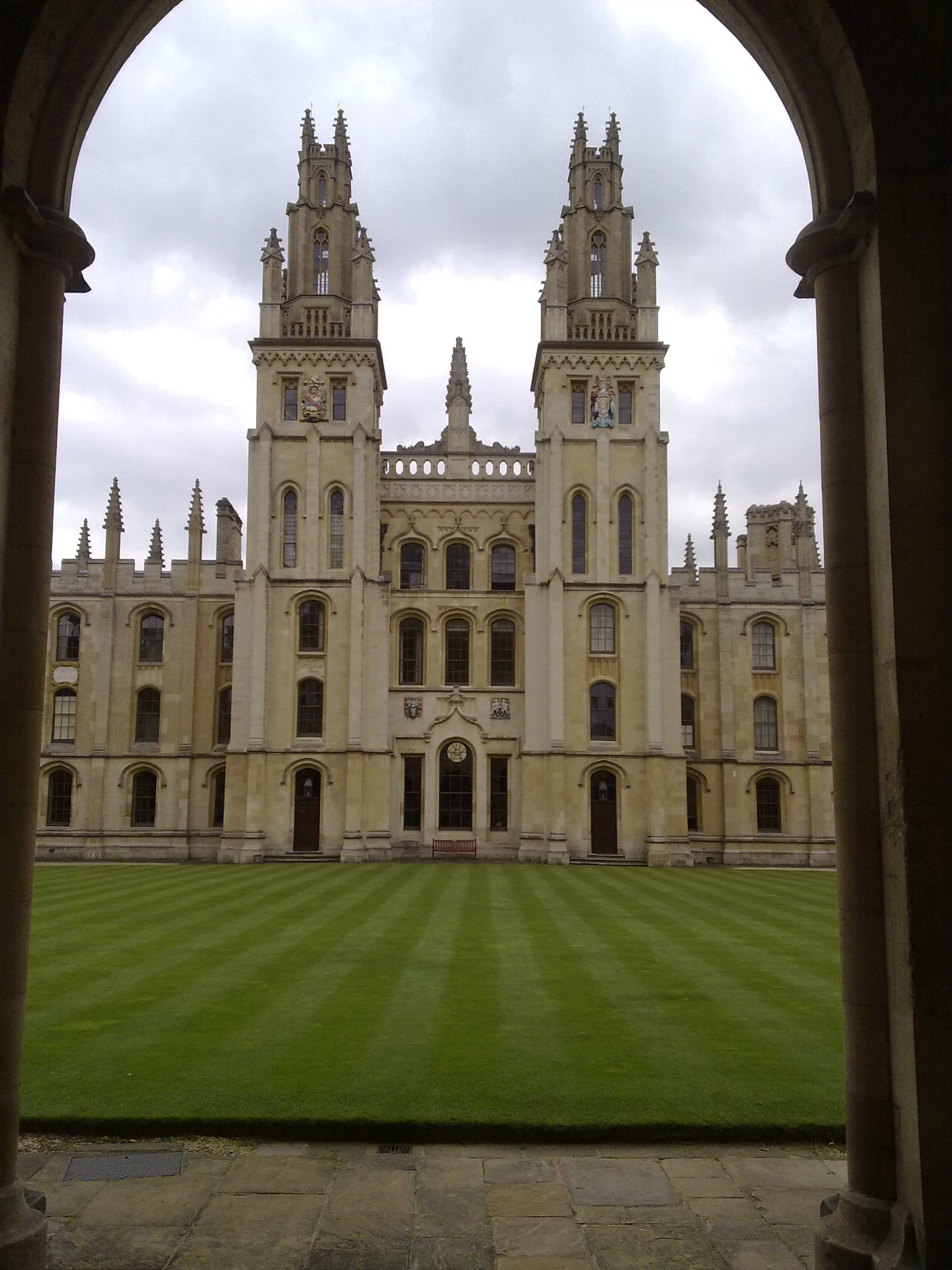 A view of the quadrangle of All Souls College, Oxford through its Radcliffe Square gate.